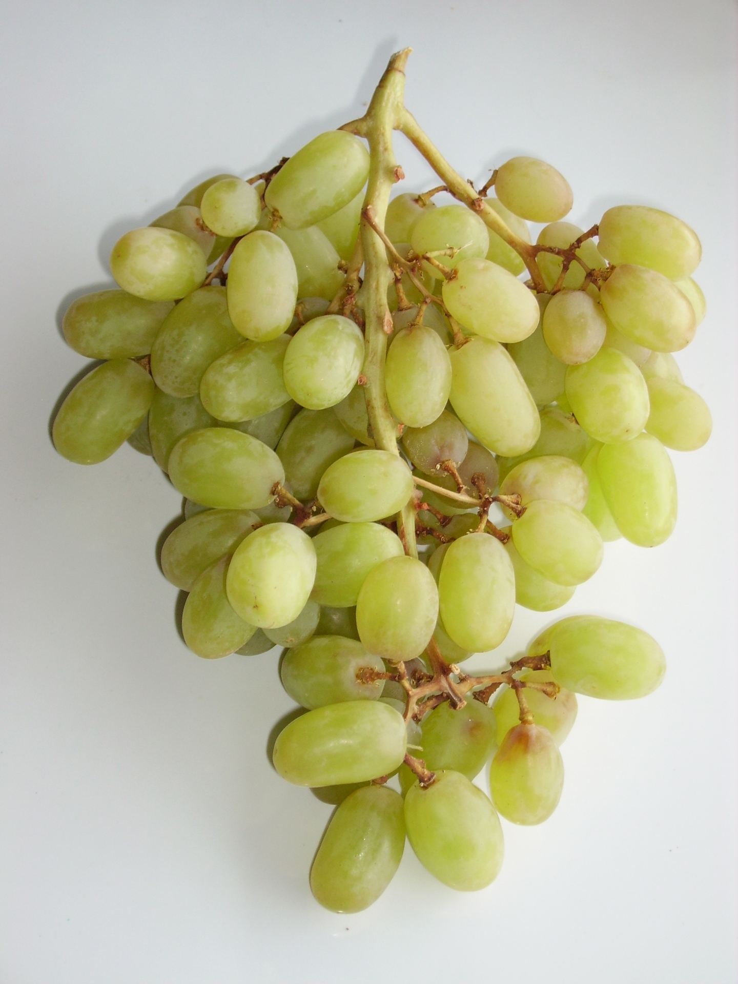 A bunch of seedless table grapes